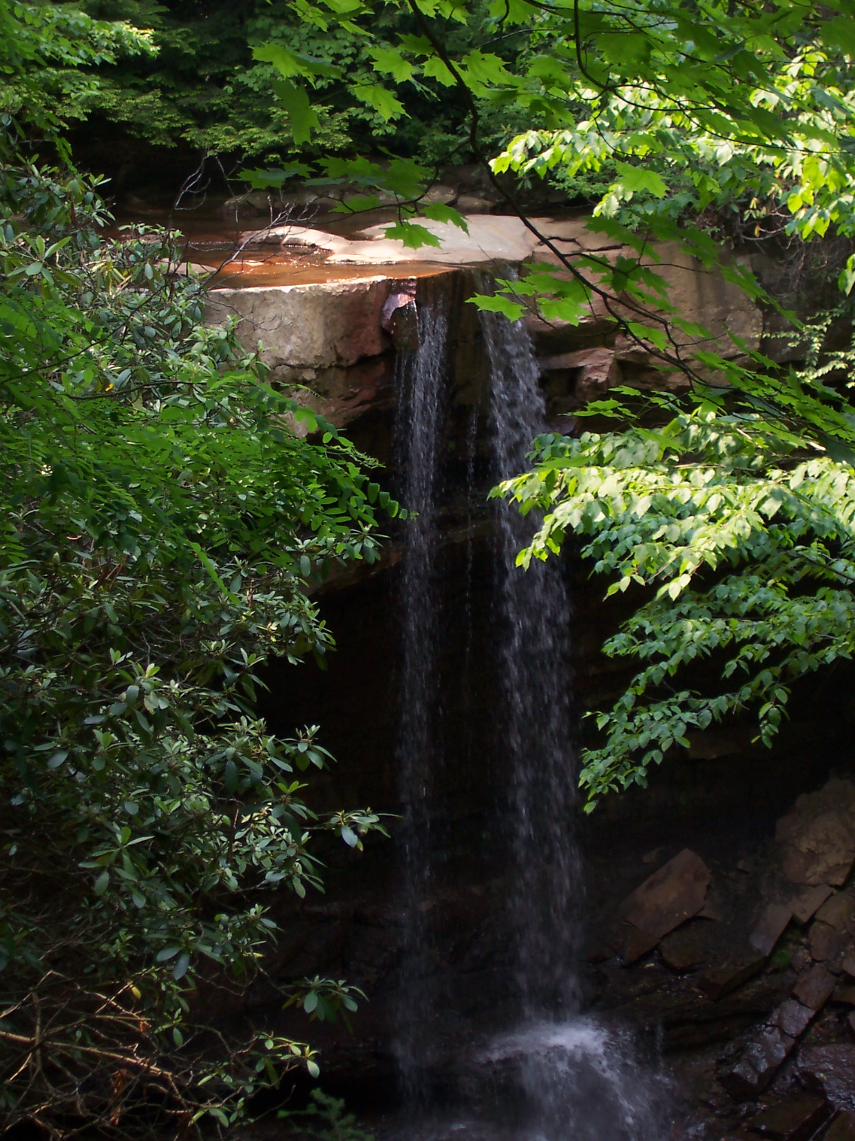 Cucumber Falls, Ohiopyle State Park, PA, USA. Taken by Michael James O'Connor in June 2006.